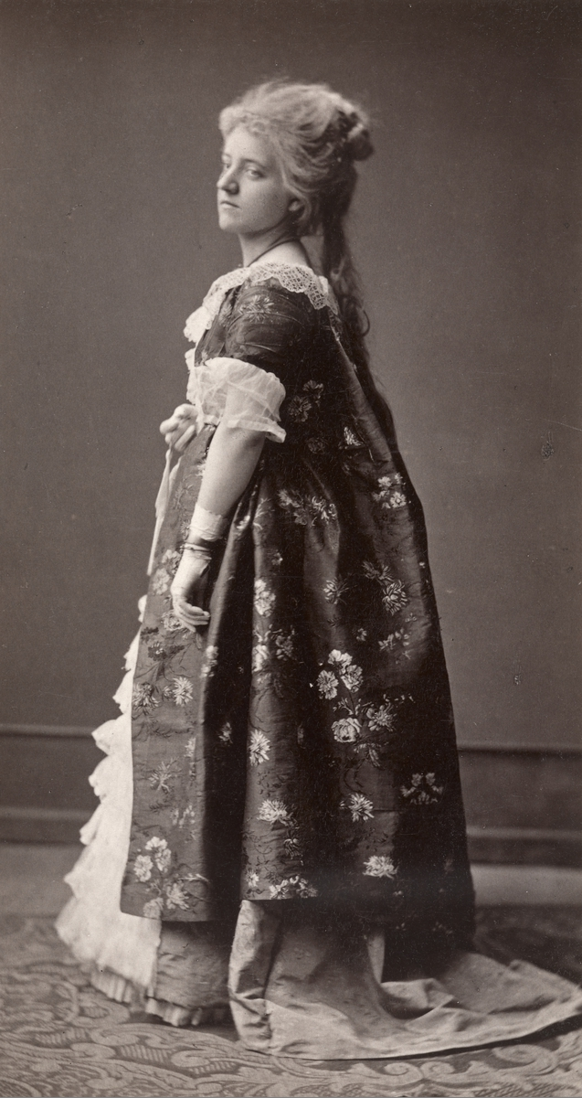 Depicted person: Ida Wedel Jarlsberg – Norwegian painter